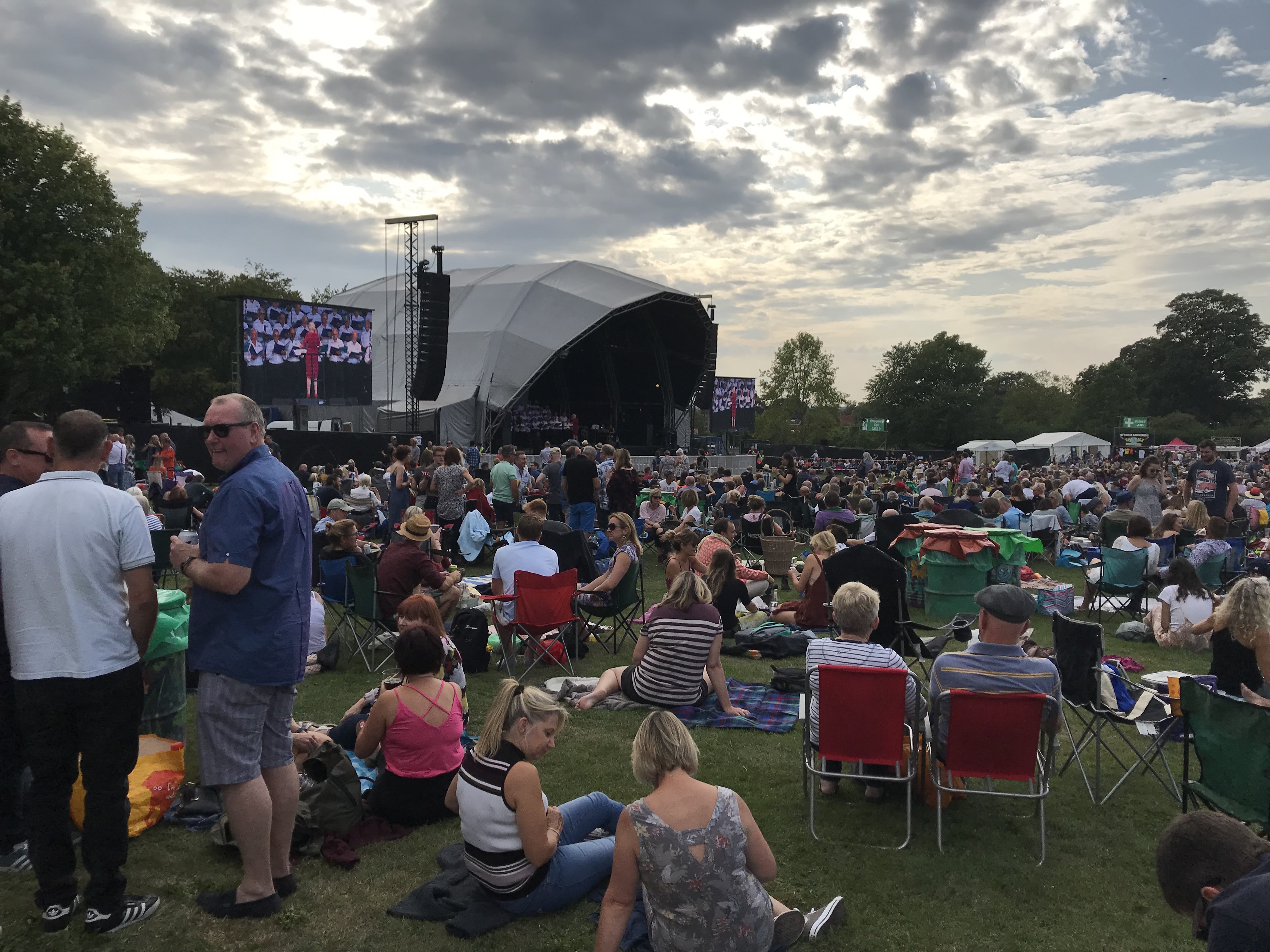 Glastonbury Extravaganza 2019 showing stage and people picnicking whilst the Brue Boys Chior was on stage